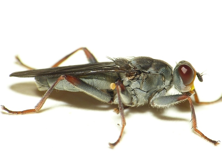 Hydromyza livens, location: The Netherlands - Rhenen - Blauwe Kamer - Gelderland